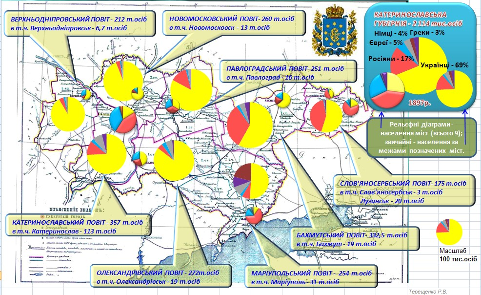 Ethnic groups Katerynoslavs'ka province of the Russian Empire, according to census 1897